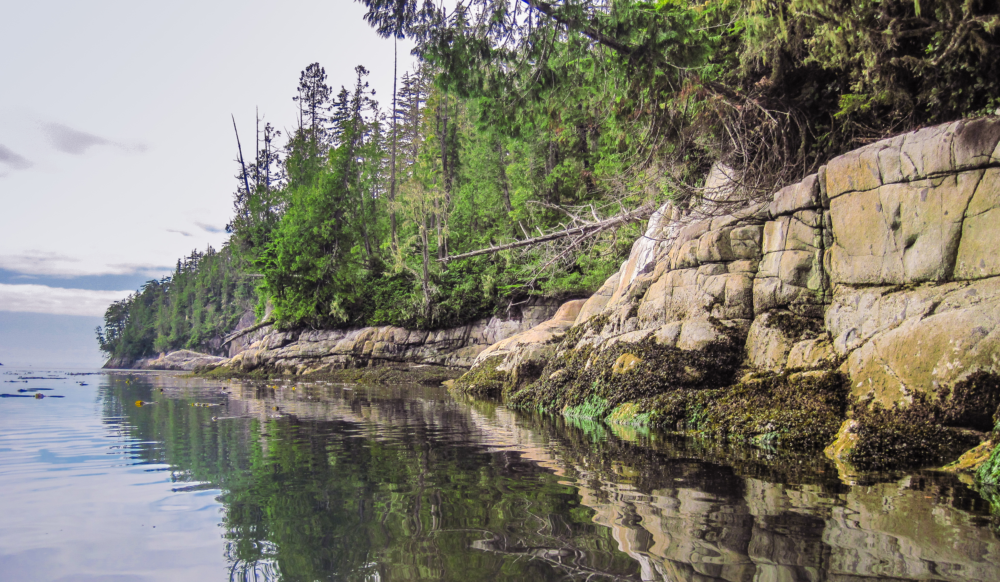 The shoreline of Eden Island in the Broughton Archipelago Marine Provincial Park, British Columbia This photo was taken in a protected area in Canada, Wikidata item Broughton Archipelago Provincial Park (Q4975807)